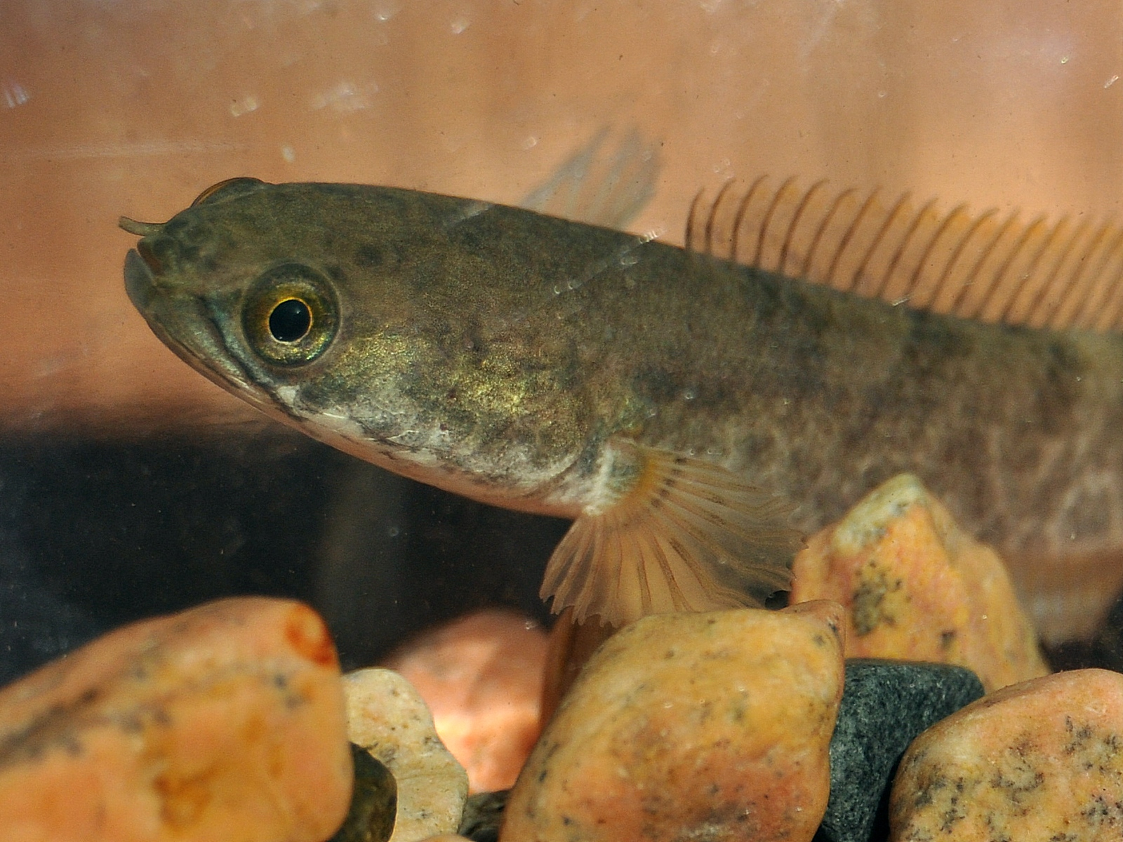 Dwarf snakehead, Channa gachua, 60mm SL. From Karawang, West Java. Dorsal fin 34, anal 22, pectoral 13, pelvic present.